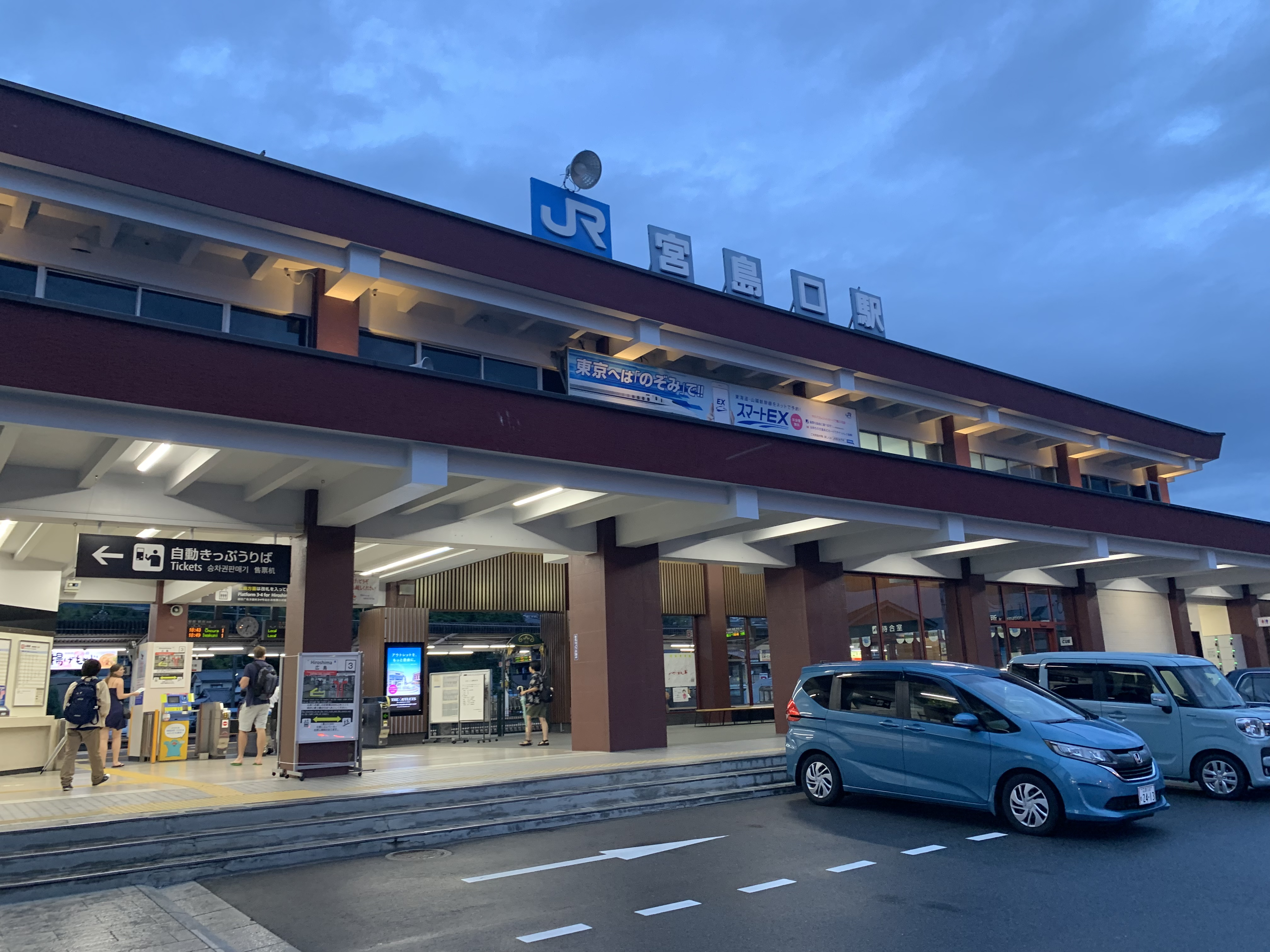 Miyajimaguchi station in Hiroshima